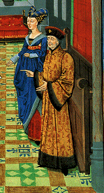 Countess Joan I. of Flanders and Hainaut with her second husband, Thomas of Savoy. (Brussels, Koninklijke Bibliotheek van België)